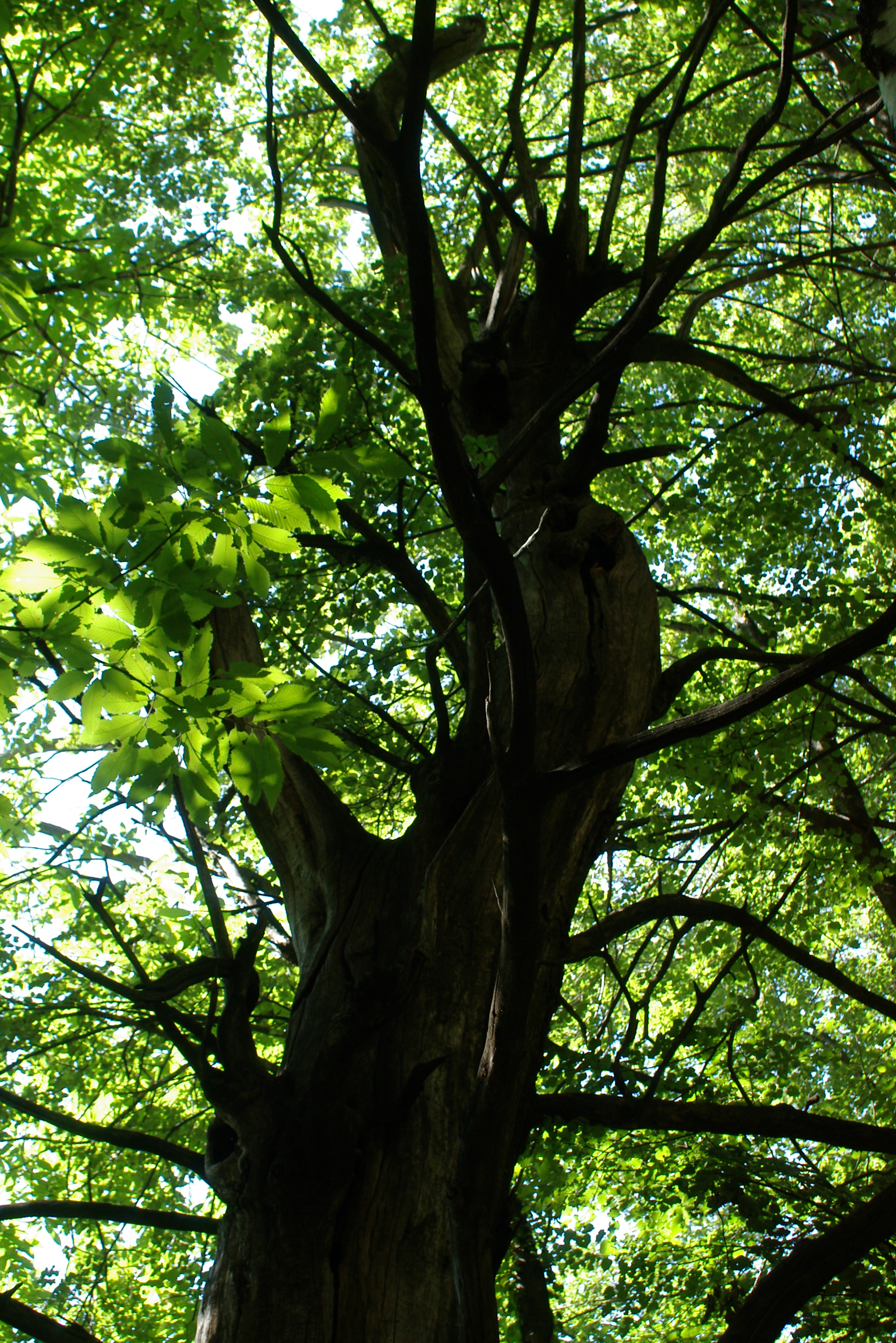 A sweet chestnut forest in the swiss alps(Ticino)